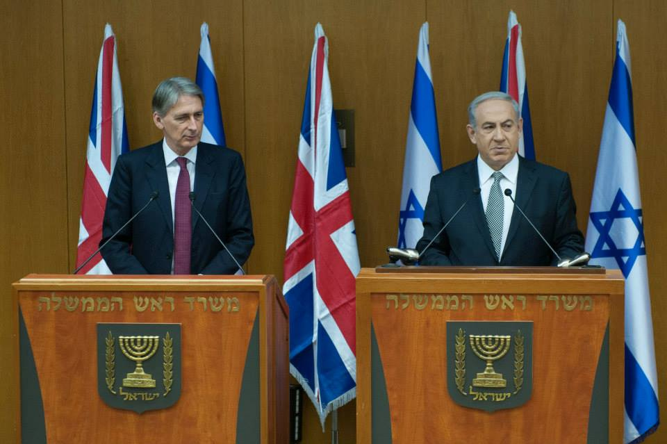 During his visit to the Middle East, Foreign Secretary Philip Hammond met the Prime Minister of Israel.